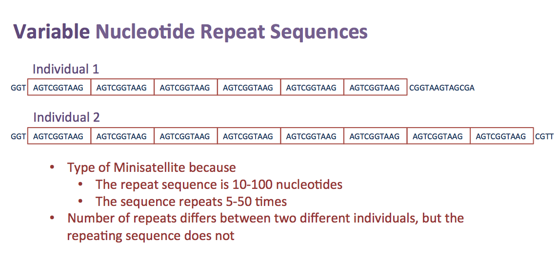 This shows a theoretical example of a VNTR in two different individuals. A single strand of DNA from each individual is displayed in which there is tandem repeat sequence that the individuals share. The sequence presence is a VNTR because one individual has five repeats, while the other has seven repeats (number of repeats varies in different individuals) Each repeat is ten nucleotides, making it a minisatellite, rather than a microsatellite in which each repeat is 2-5 nucleotides.